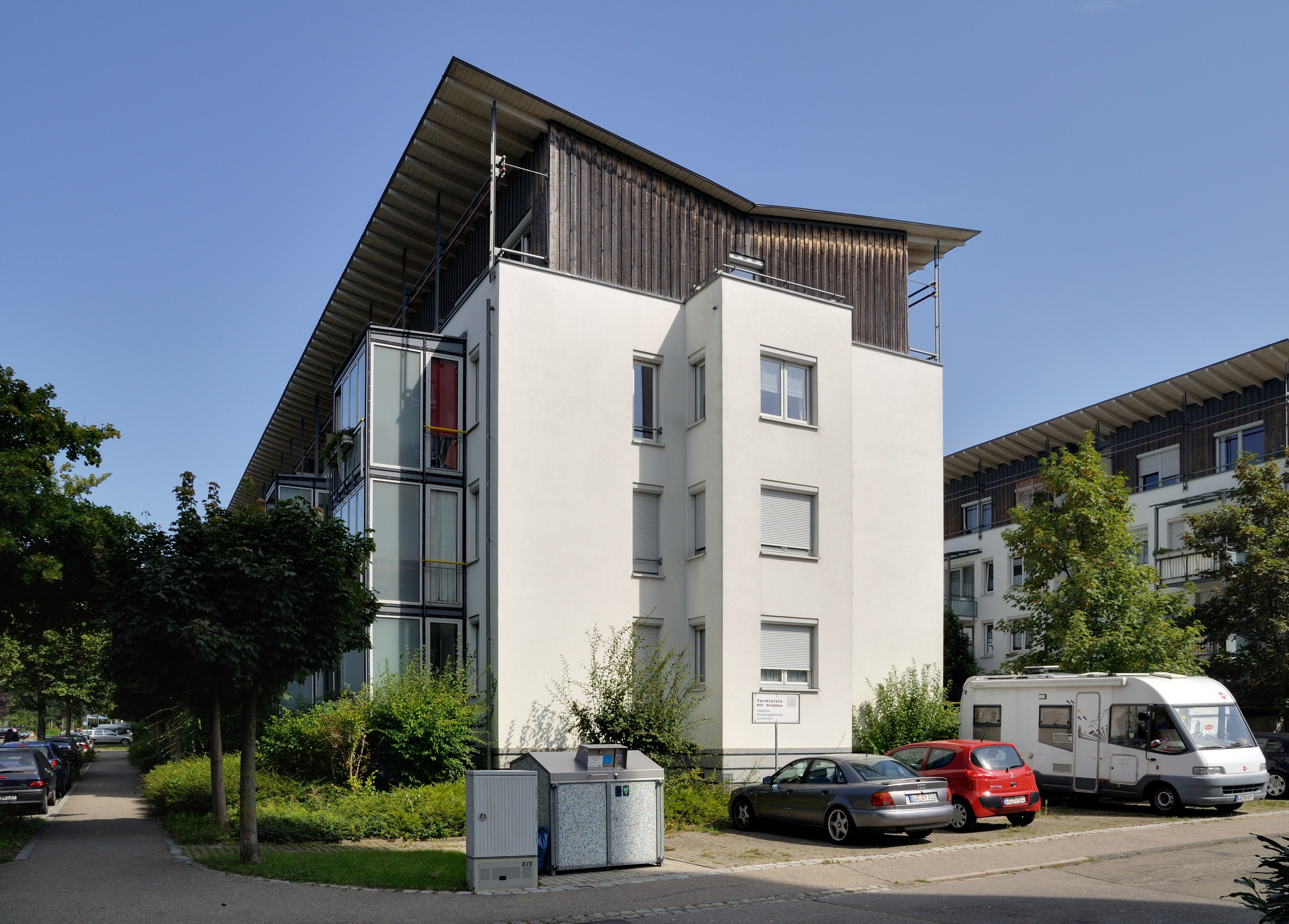 Lörrach: Housing Area "Stadion"